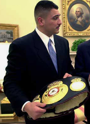 Boxer Johnny Ruiz look at the World Boxing Association Heavyweight Championship belt inside the Oval Office, Thursday, March 15. (excerpt from the original text)